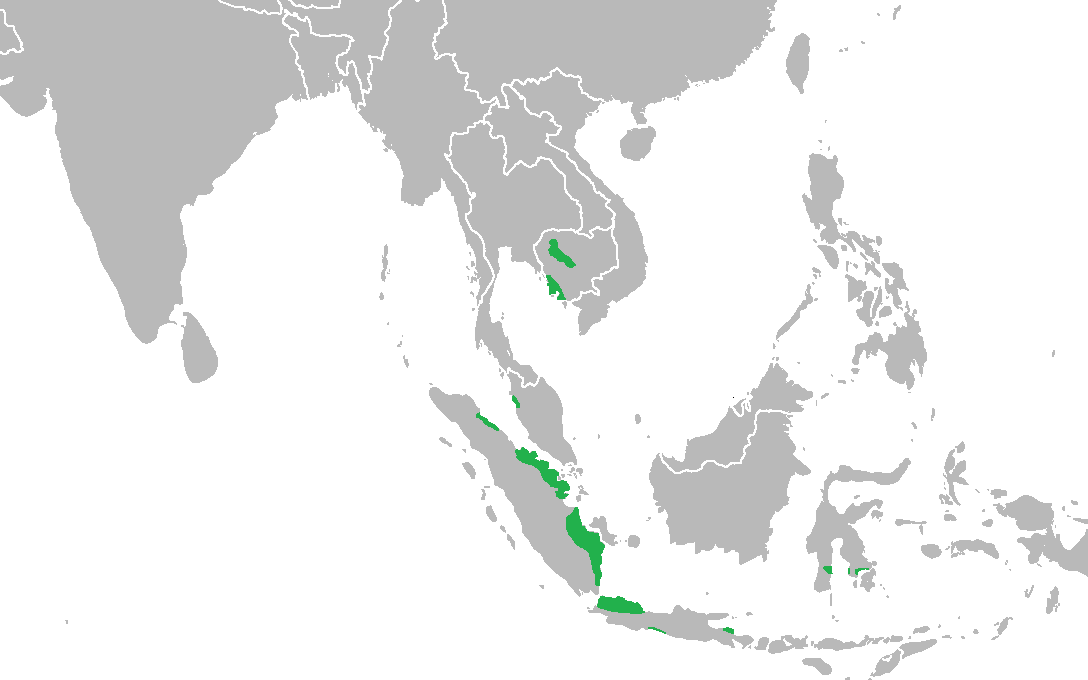 Extant geographical range of the milky stork according to the IUCN (2016)